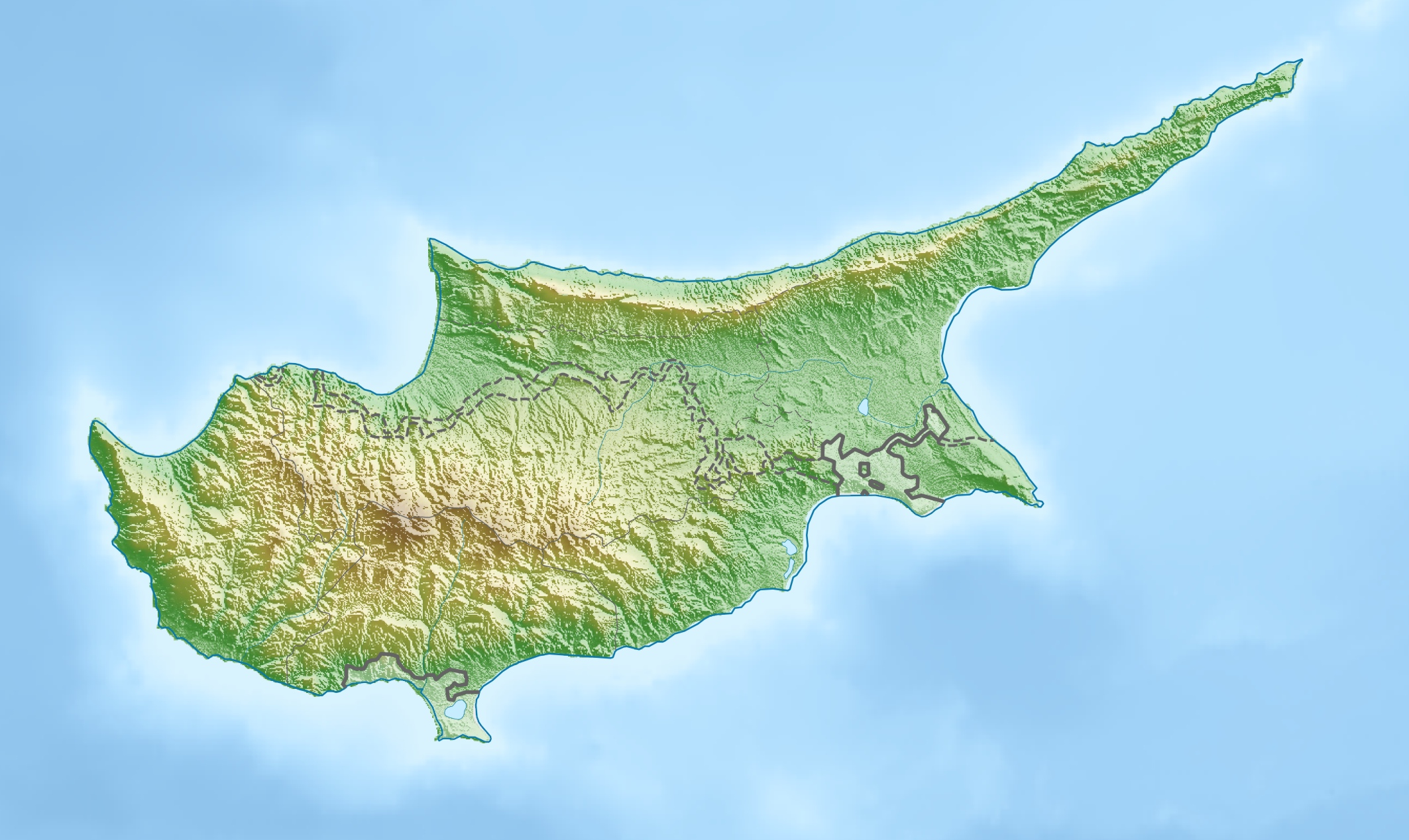 Physical location map of Cyprus Equirectangular projection, N/S stretching 115 %. Geographic limits of the map: N: 35.8° N S: 34.4° N W: 32.1° E E: 34.8° E